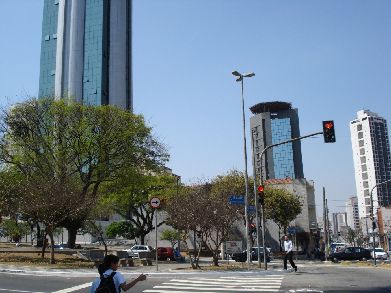 Buildings nearby Santana Metro Station. São Paulo, SP, Brazil.